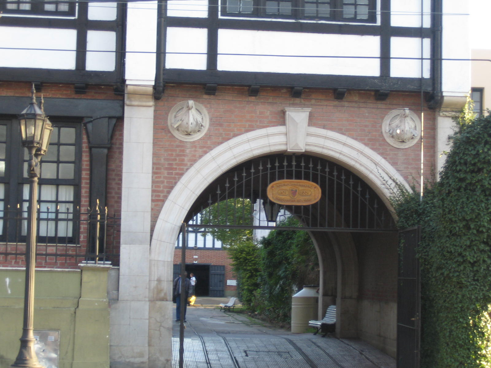 Rowing Club Argentino boathouse, located in Tigre, Buenos Aires.